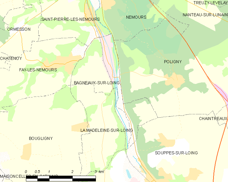 Map of French municipality Bagneaux-sur-Loing